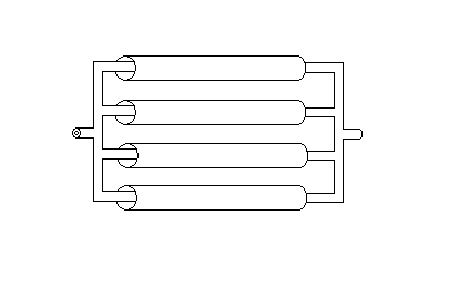 Picture showing splitting technology